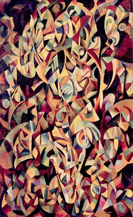 Dance